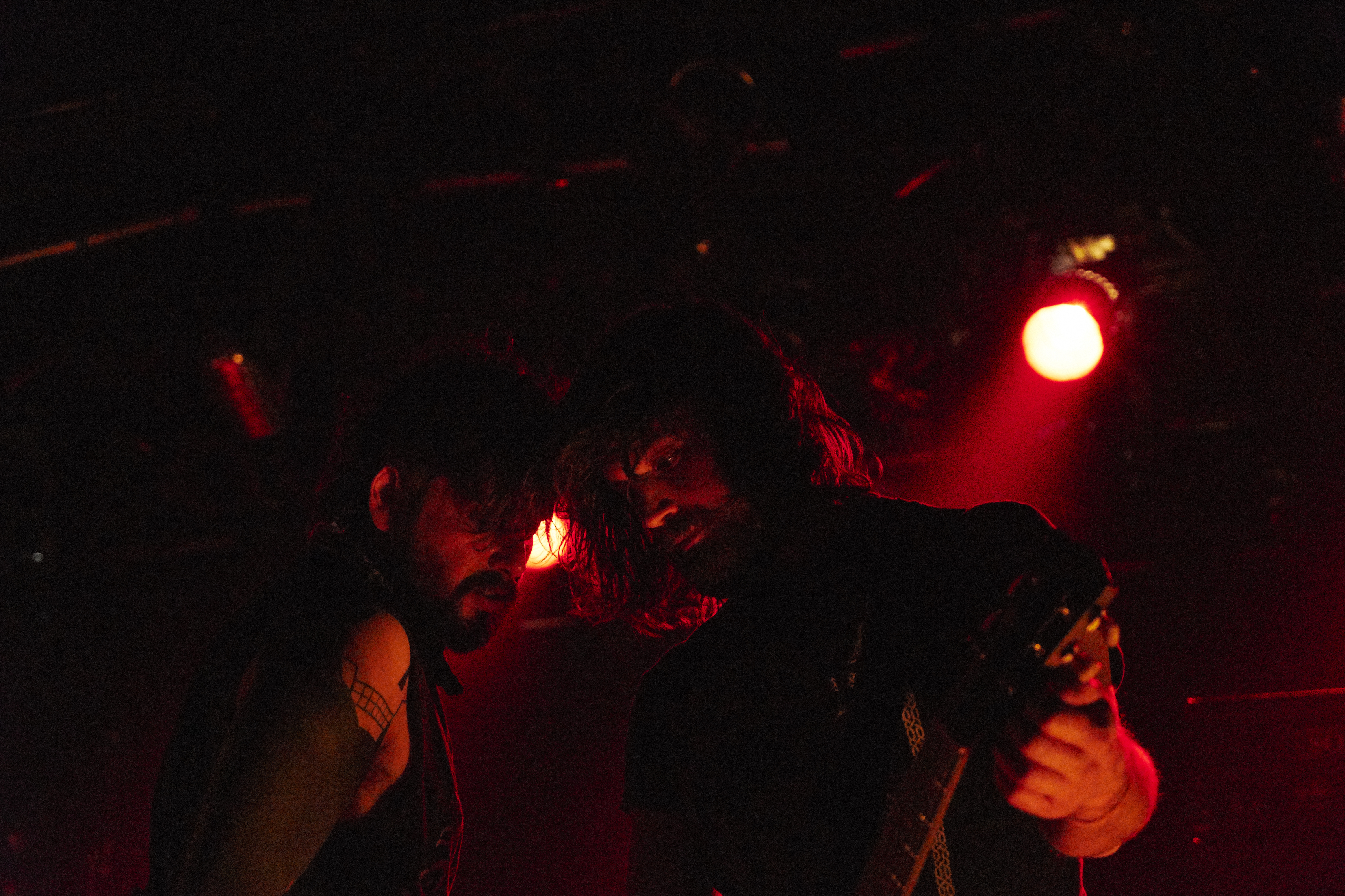 Monarch! at Droneberg Doom Festival, Berlin-Kreuzberg SO36, 16.04.2015 Festivalsommer This photo was created with the support of donations to Wikimedia Deutschland in the context of the CPB project "Festival Summer". Personality rights warning Although this work is freely licensed or in the public domain, the person(s) shown may have rights that legally restrict certain re-uses unless those depicted consent to such uses. In these cases, a model release or other evidence of consent could protect you from infringement claims.